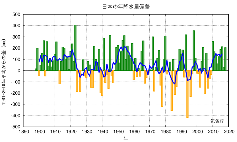 Japanese annual precipitation since 1898.